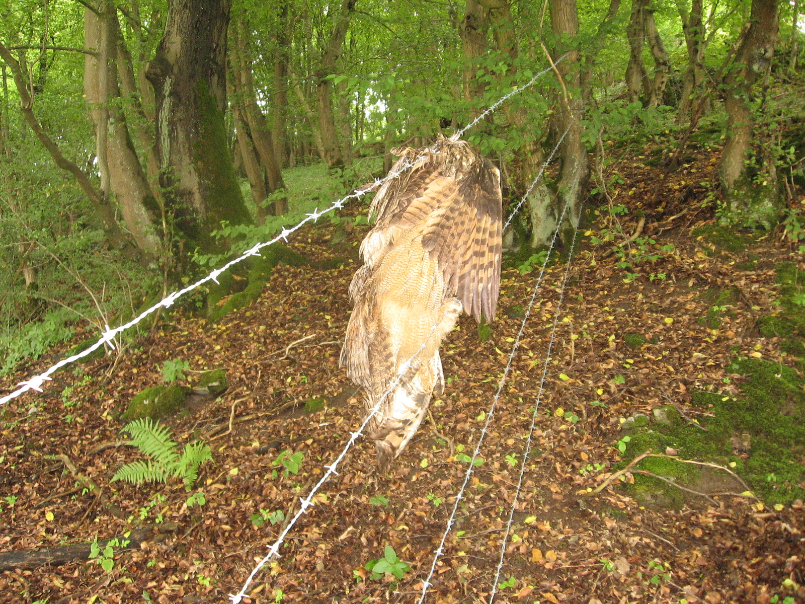 Killed adult male Eagle Owl in barbed wire in Sauerland, Germany